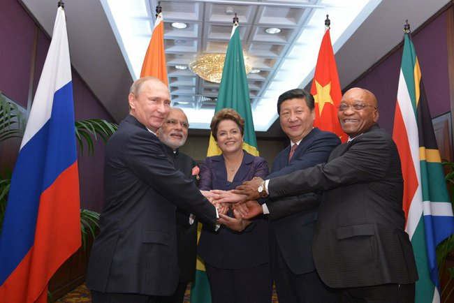 Participants in the meeting of BRICS heads of state and government: Vladimir Putin, Prime Minister of India Narendra Modi, President of Brazil Dilma Rouseff, President of the People’s Republic of China Xi Jinping and President of South Africa Jacob Zuma.